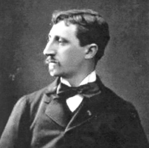 Undated photo of the French artist Edouard Detaille.